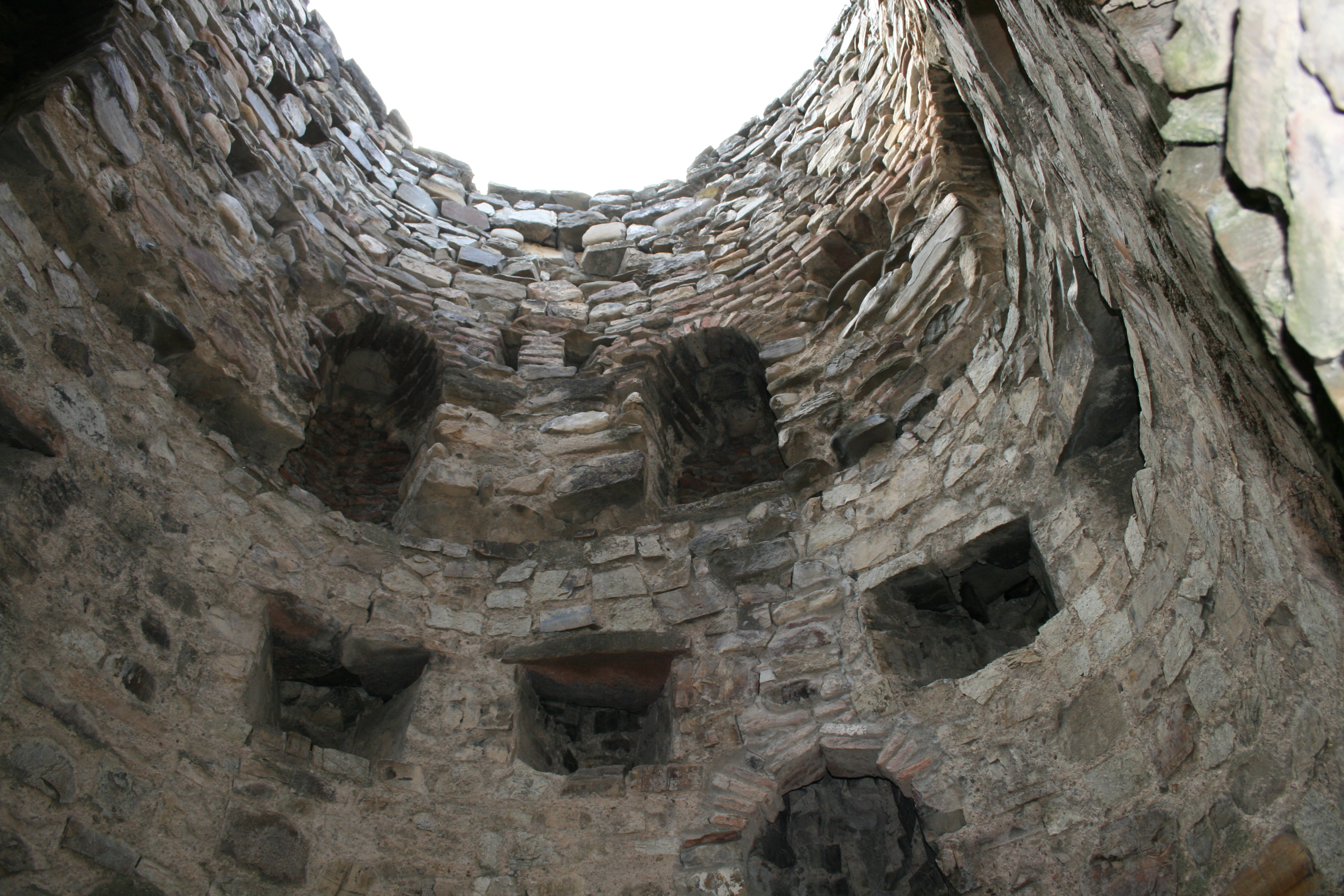 Inside a tower of the Ananuri castle